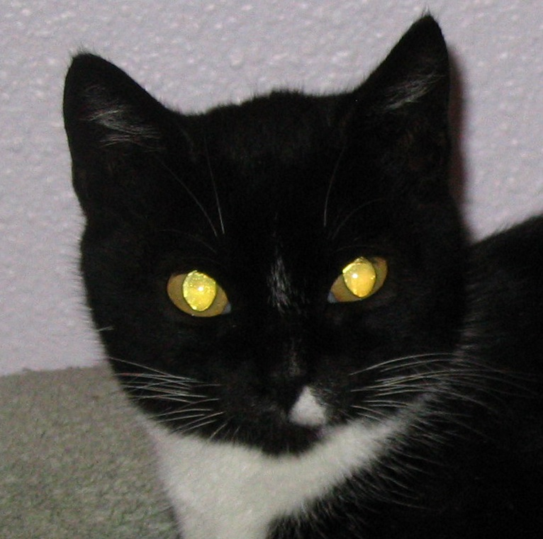 Black and white housecat looking at the camera and exhibiting yellow eyeshine. Same cat as in Image:Mother_cat_lying_with_tan_kitten.jpg.